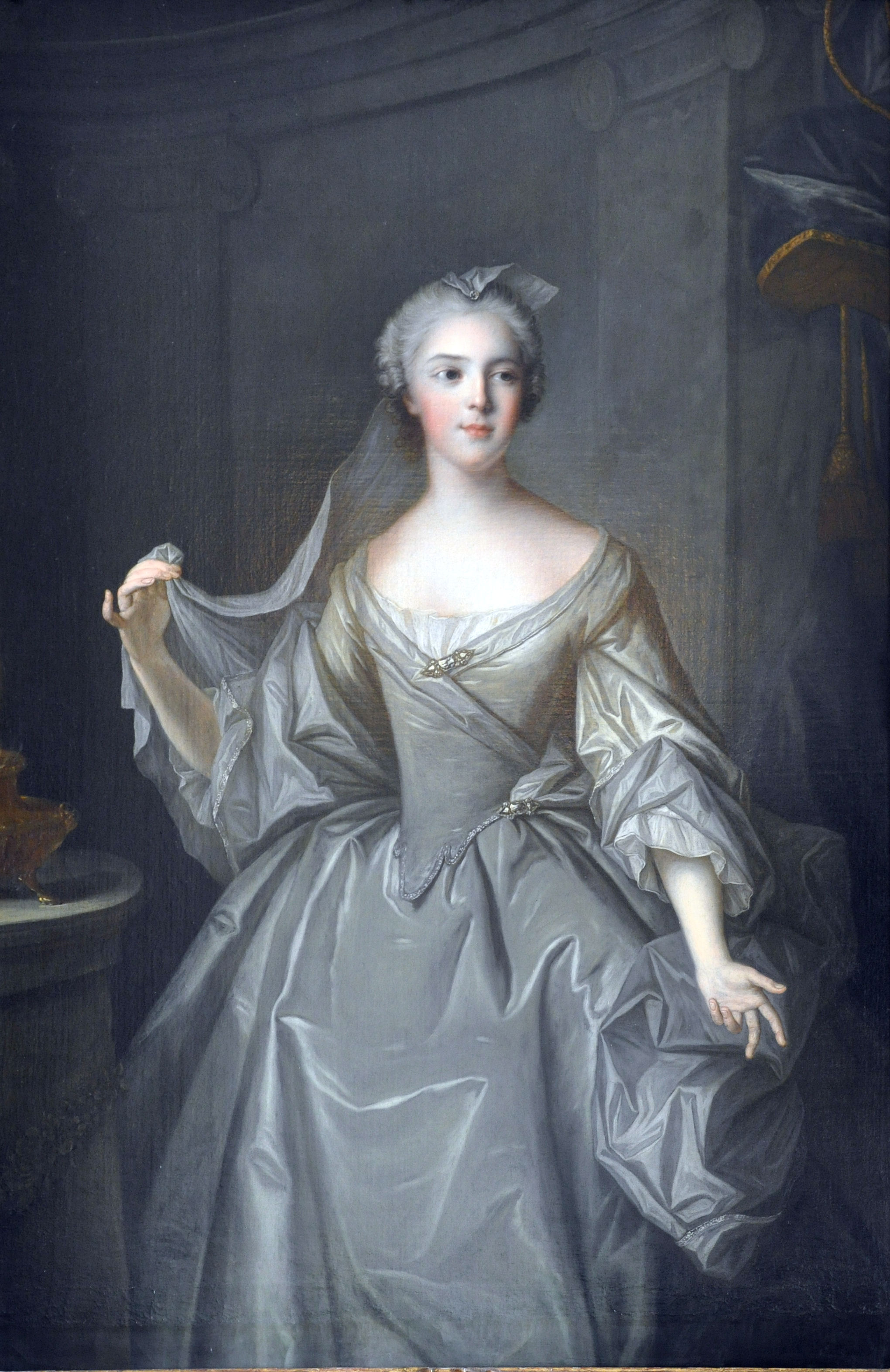 Sophie-Philippine-Élisabeth-Justine of France (1734–1782), known as Madame Sophie, daughter of Louis XV